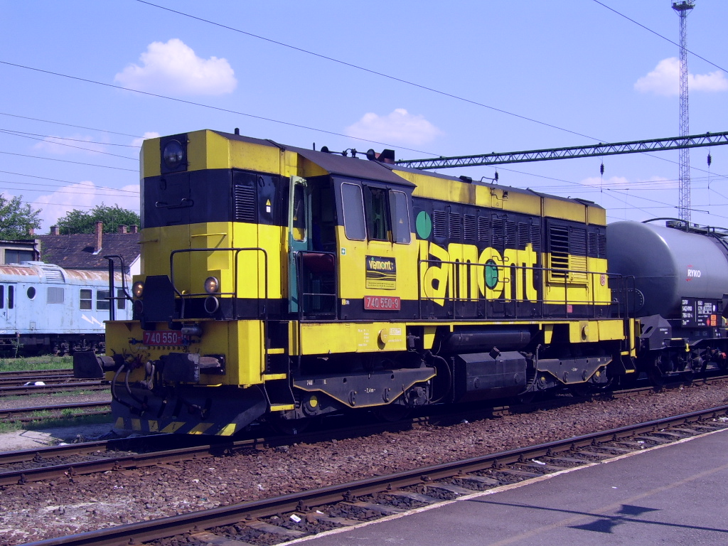 The Type 740 diesel locomotive of the Viamont Rail Co. from the Czech Republic.